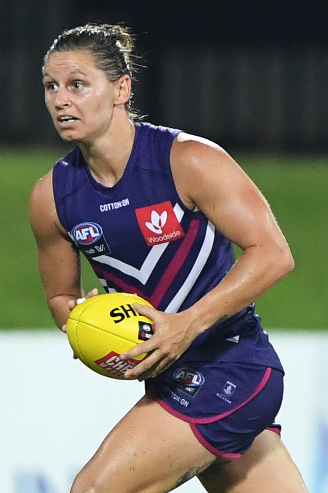 Kiara Bowers of Fremantle during the 2019 AFL Women's practice match between the Adelaide Football Club and Fremantle Football Club at TIO Stadium on January 19, 2019 in Darwin Australia.